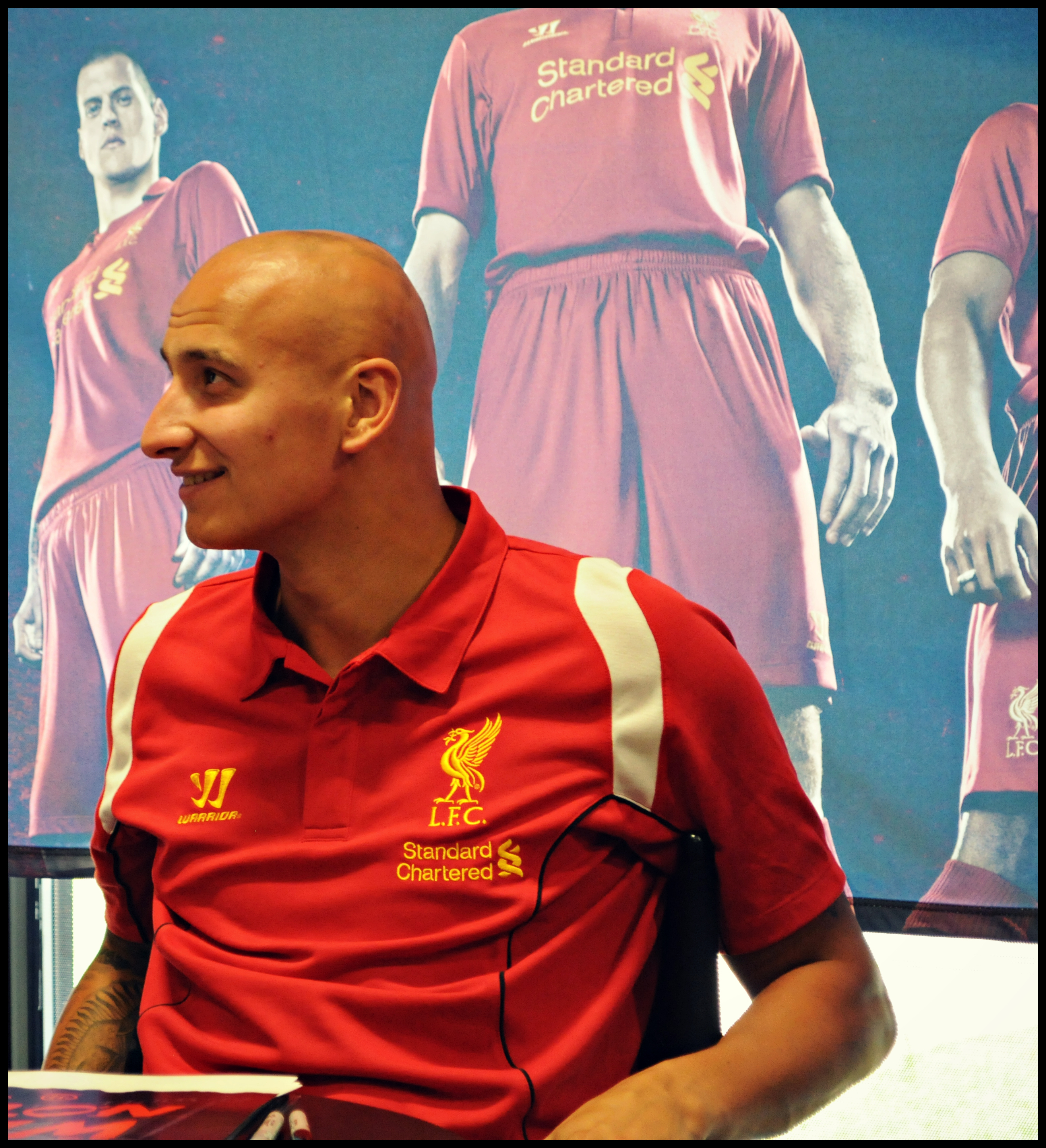 Jonjo Shelvey meets the fans in Boston